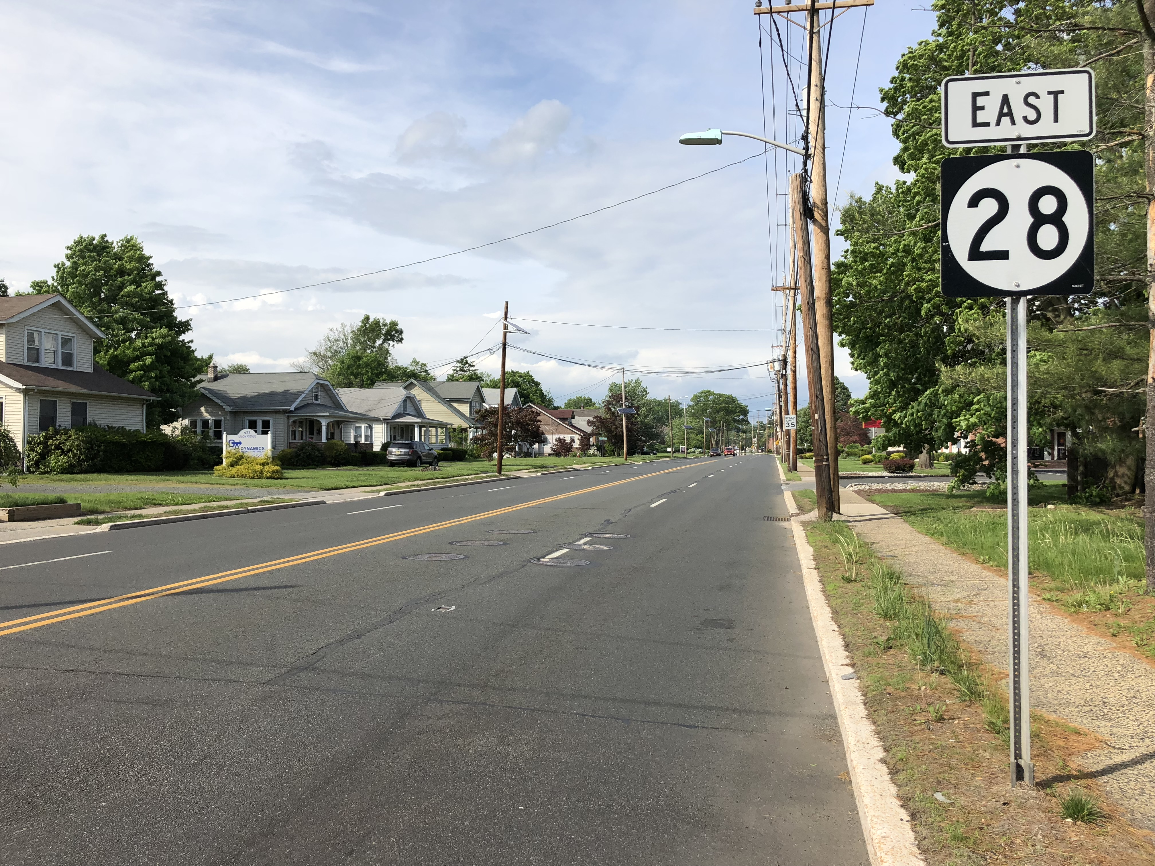 View east along New Jersey State Route 28 (Union Avenue) at Harris Avenue, Shepherd Avenue and Grant Avenue in Middlesex, Middlesex County, New Jersey